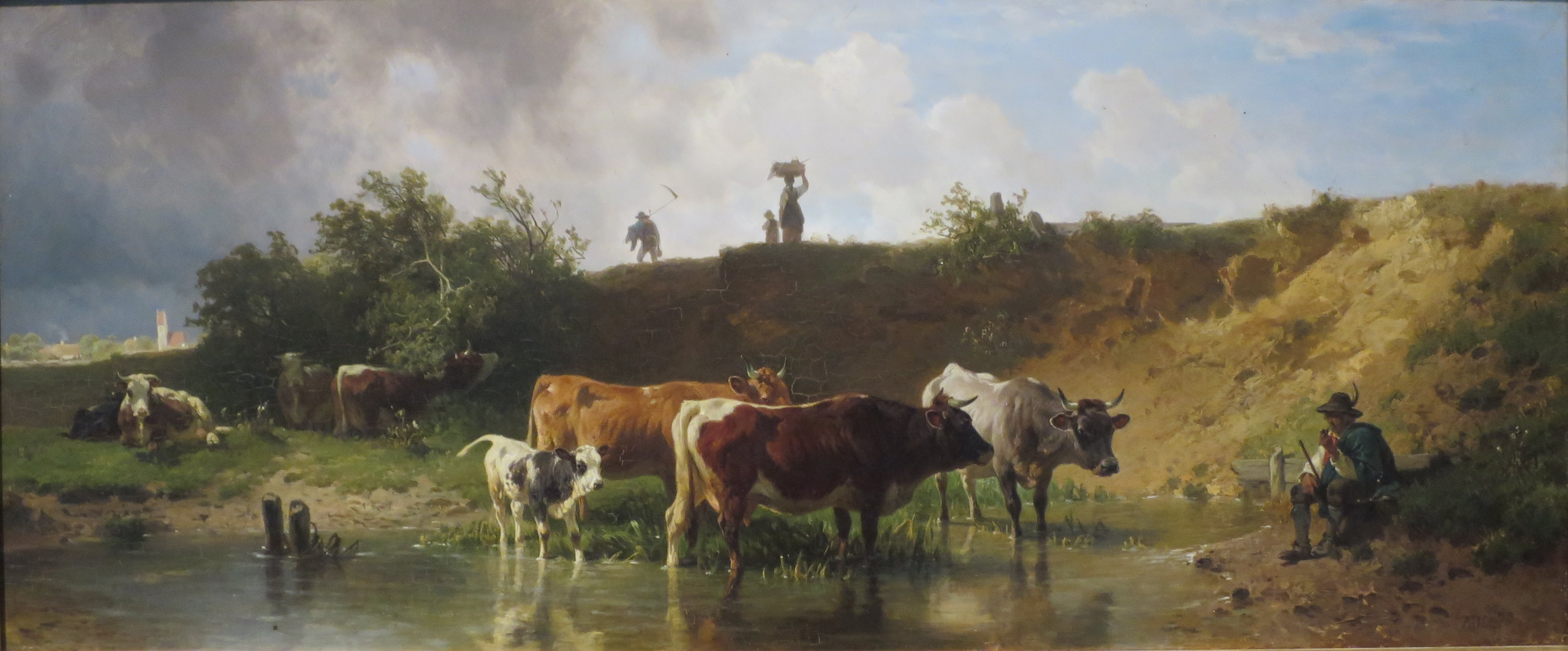 Landscape with Cows by Friedrich Voltz, 1877, tempera, Bergen Kunstmuseum